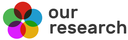 Logo of Our Research.